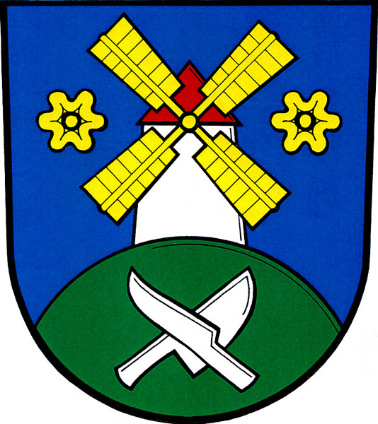 Zbyslavice CoA